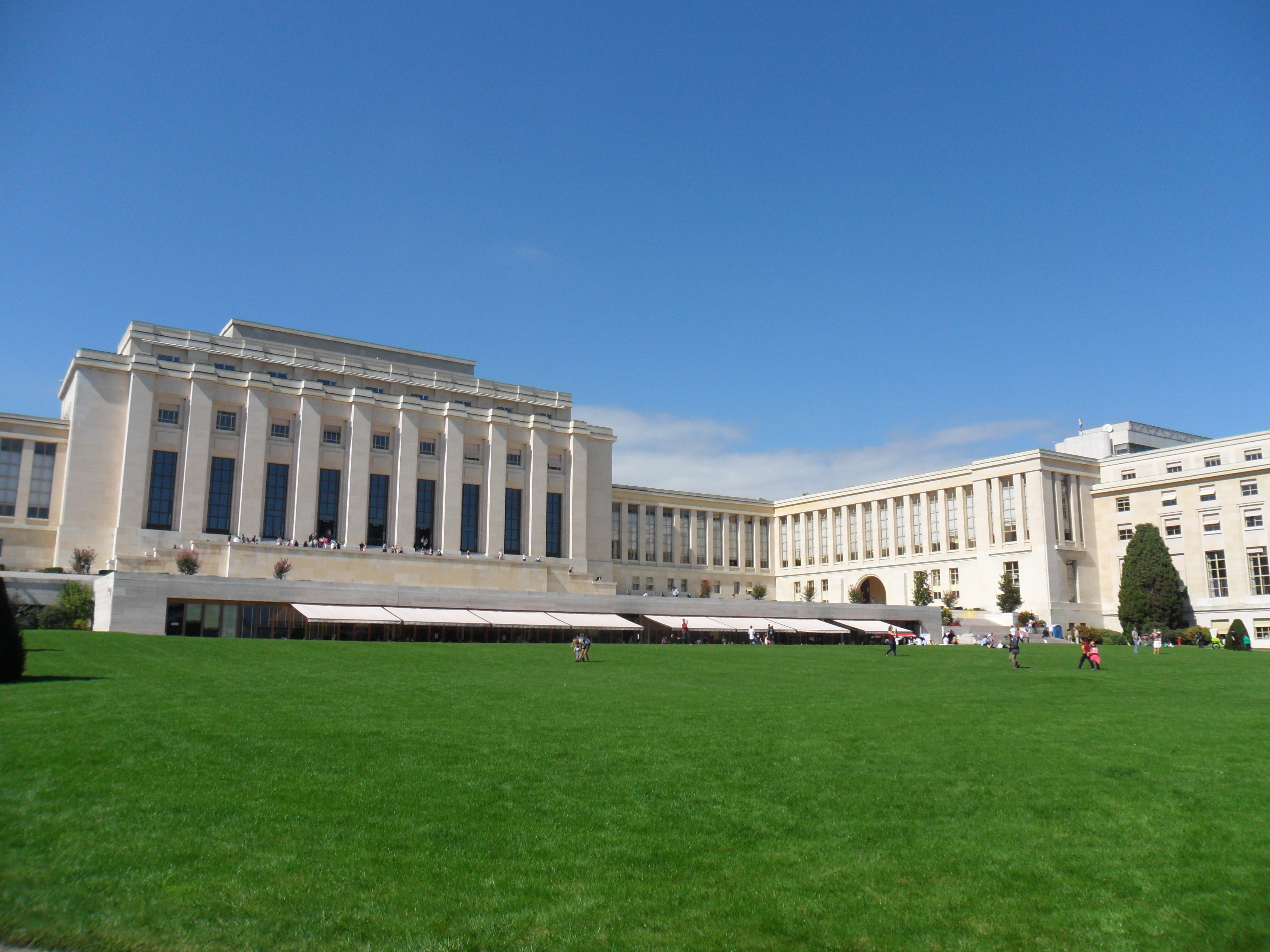 Building A of the Palace of Nations (United Nations Office at Geneva), seen from the park (south).